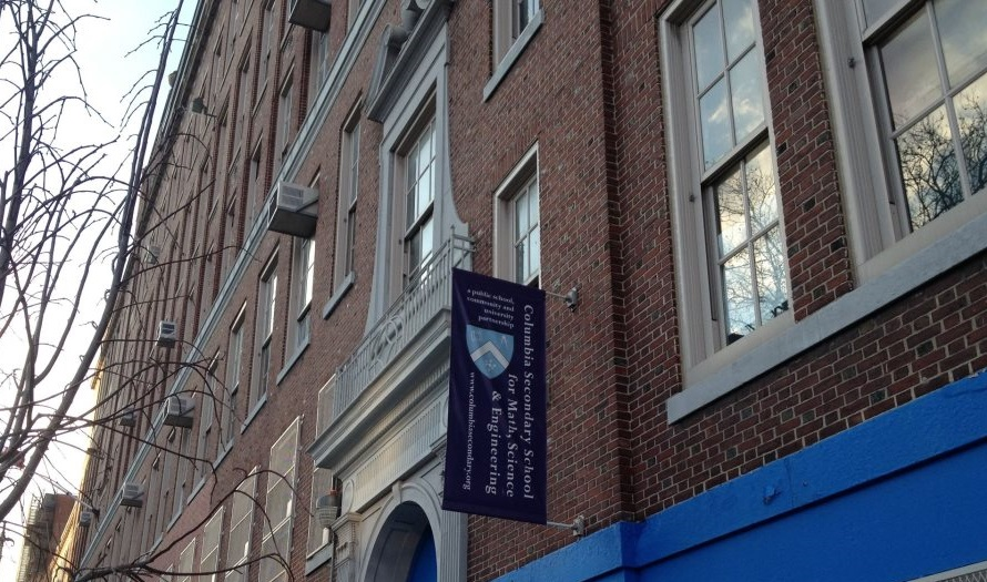 CSS sign